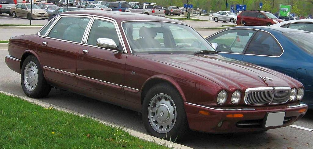 Jaguar XJ8 Vanden Plas photographed in USA.